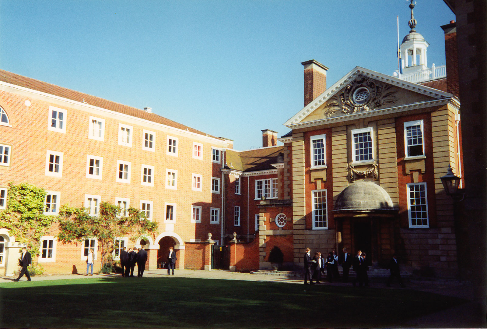 Matriculation day at LMH